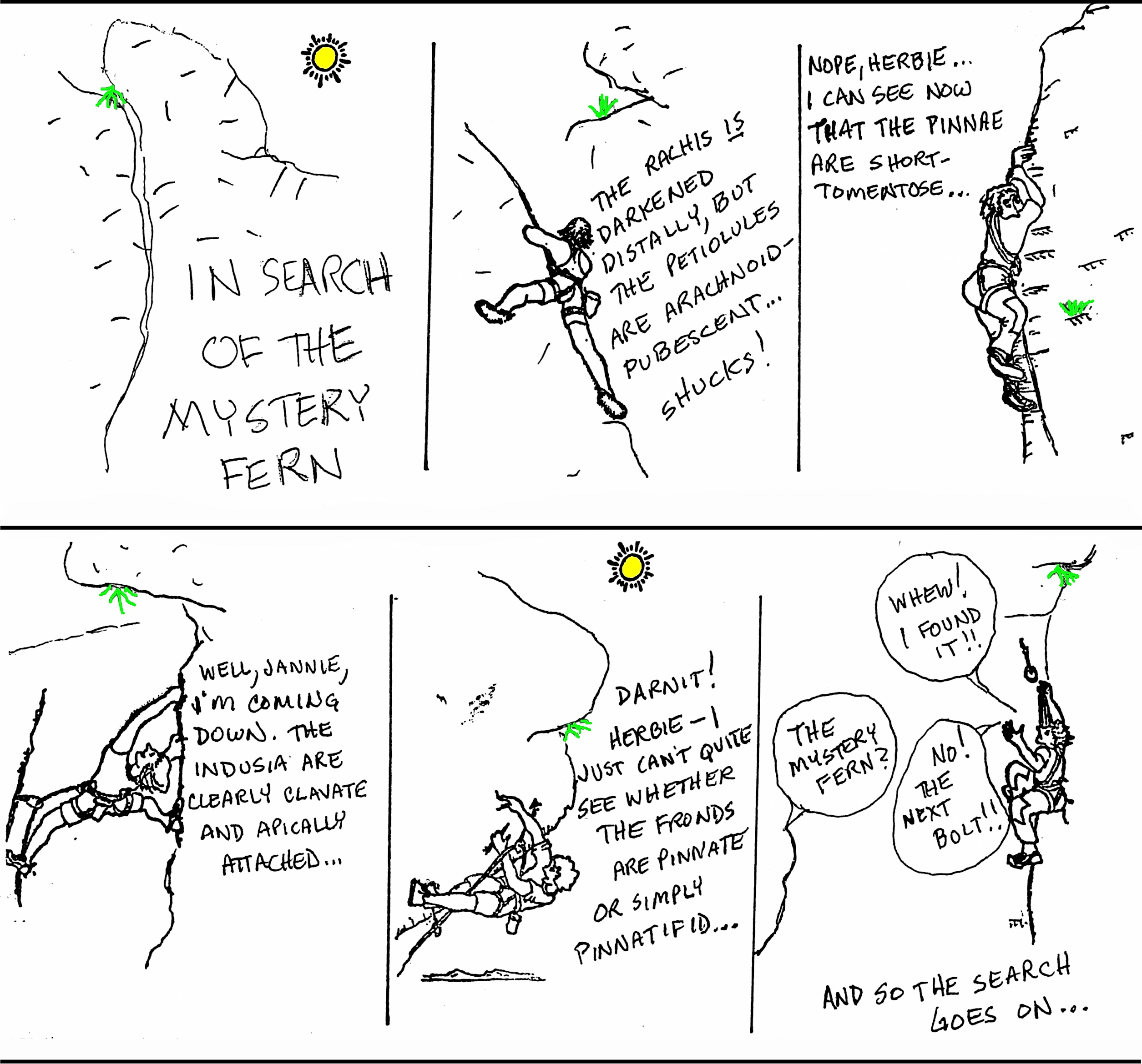 Created by Hollis Marriott, using rubber stamps by Jan Conn (designed by Jean Dolan, a climbing friend of Jan).